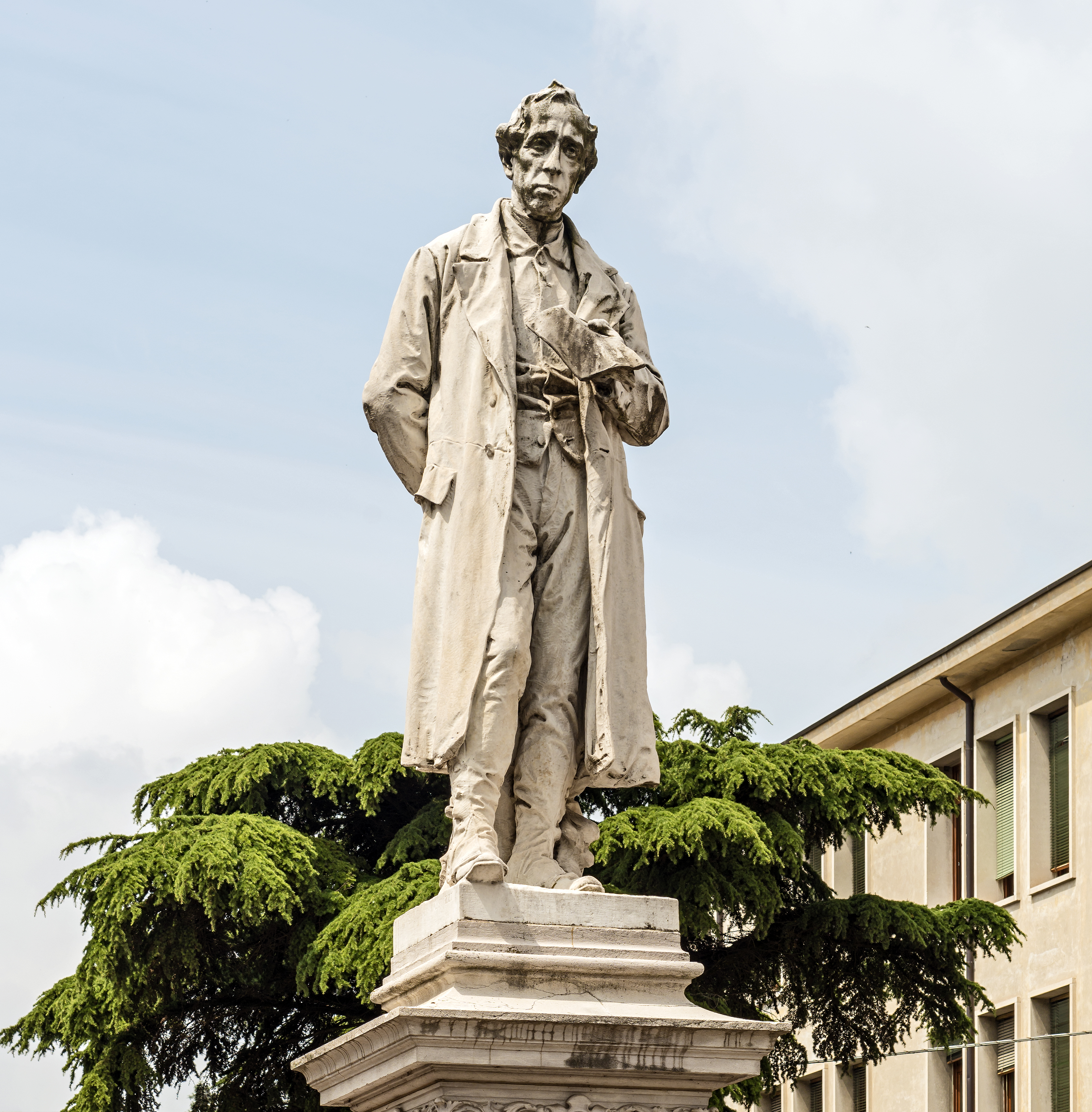 Statue of Giacomo Zanella to Vicenza by Francesco Schetzer.